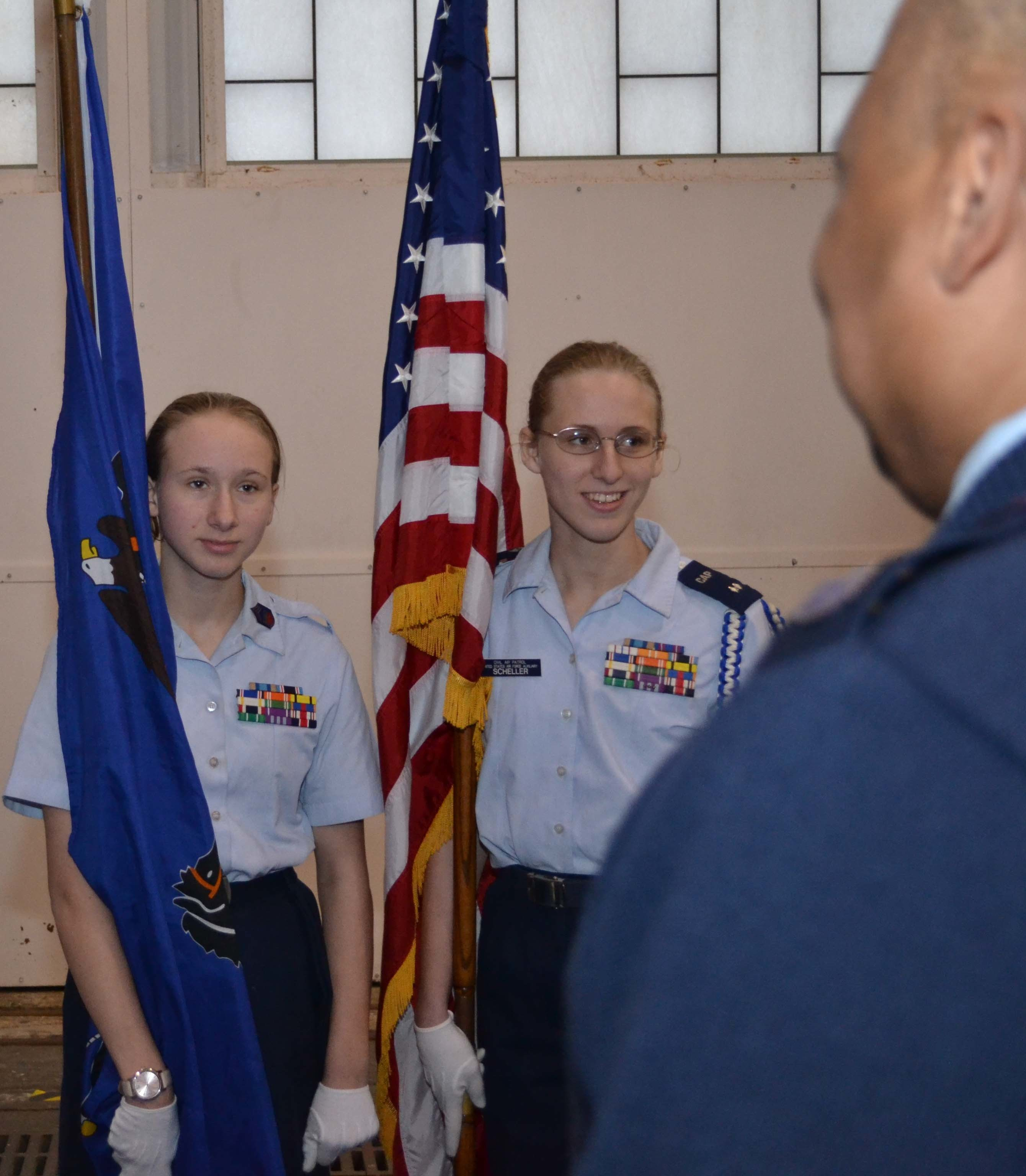 Members of the Civil Air Patrol Squadron 801 Honor Guard in Allentown, Pa., listen to instruction given by, retired Tech. Sgt. Anthony Kearse, former 111th Attack Wing Honor Guard member, during a color guard practice held Jan. 9, 2016, at Horsham Air Guard Station, Pa. The CAP cadets are looking to begin practicing at Horsham AGS as part of a partnership between the Wing and squadron. (U.S. Air National Guard photo by Tech. Sgt. Andria Allmond)